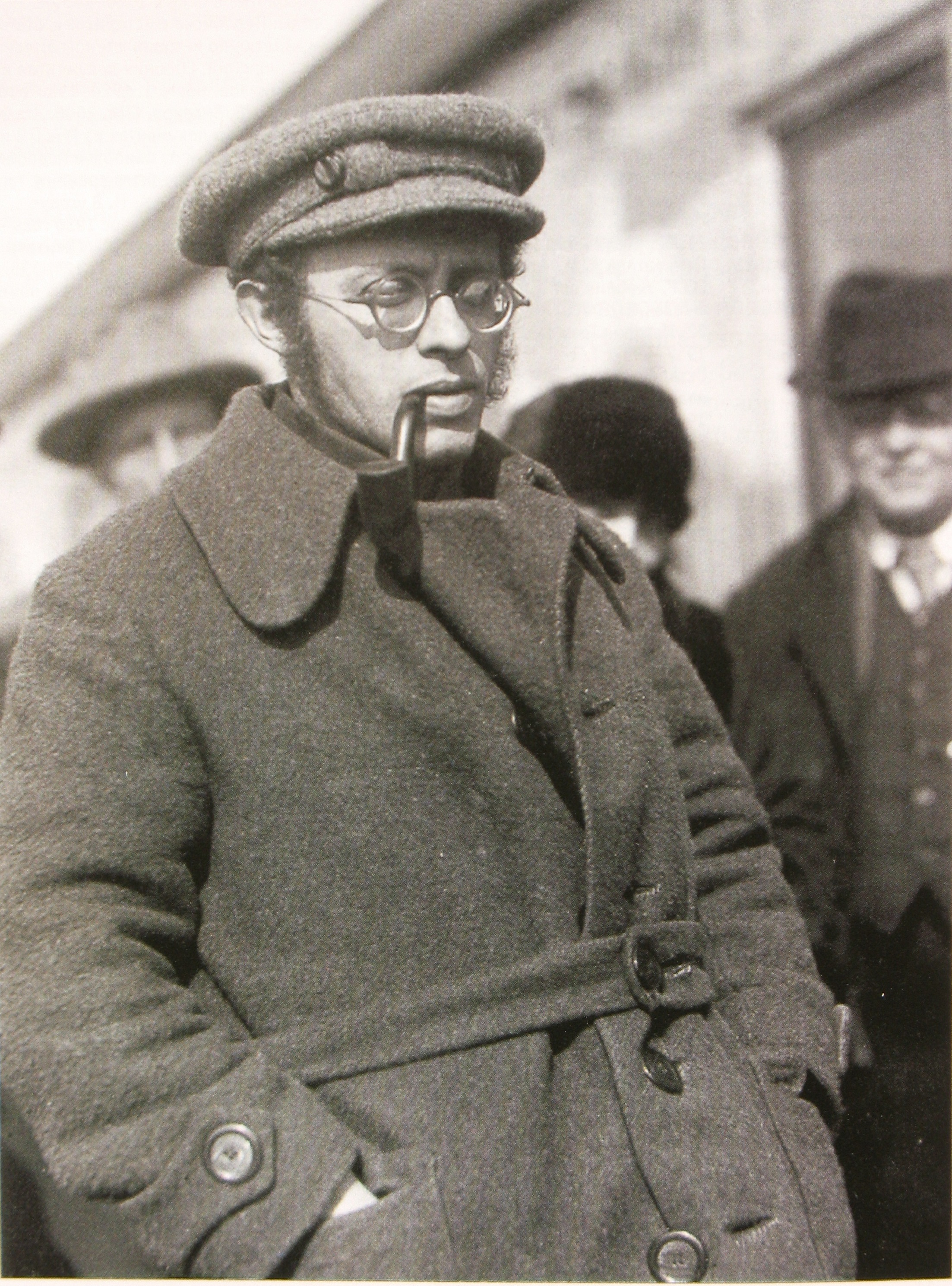 Karl Radek in Moscow in 1930s